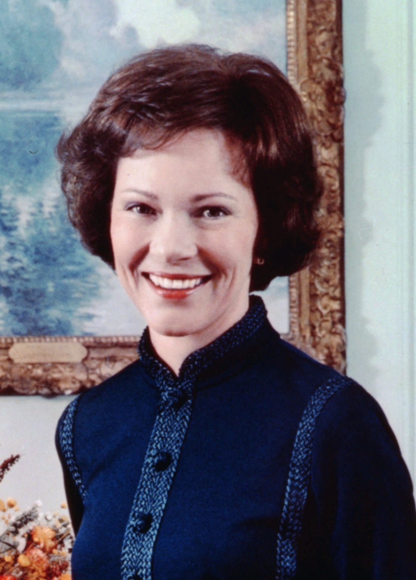 Rosalynn Carter, former First Lady of the United States. "Rose Carter" (sic)